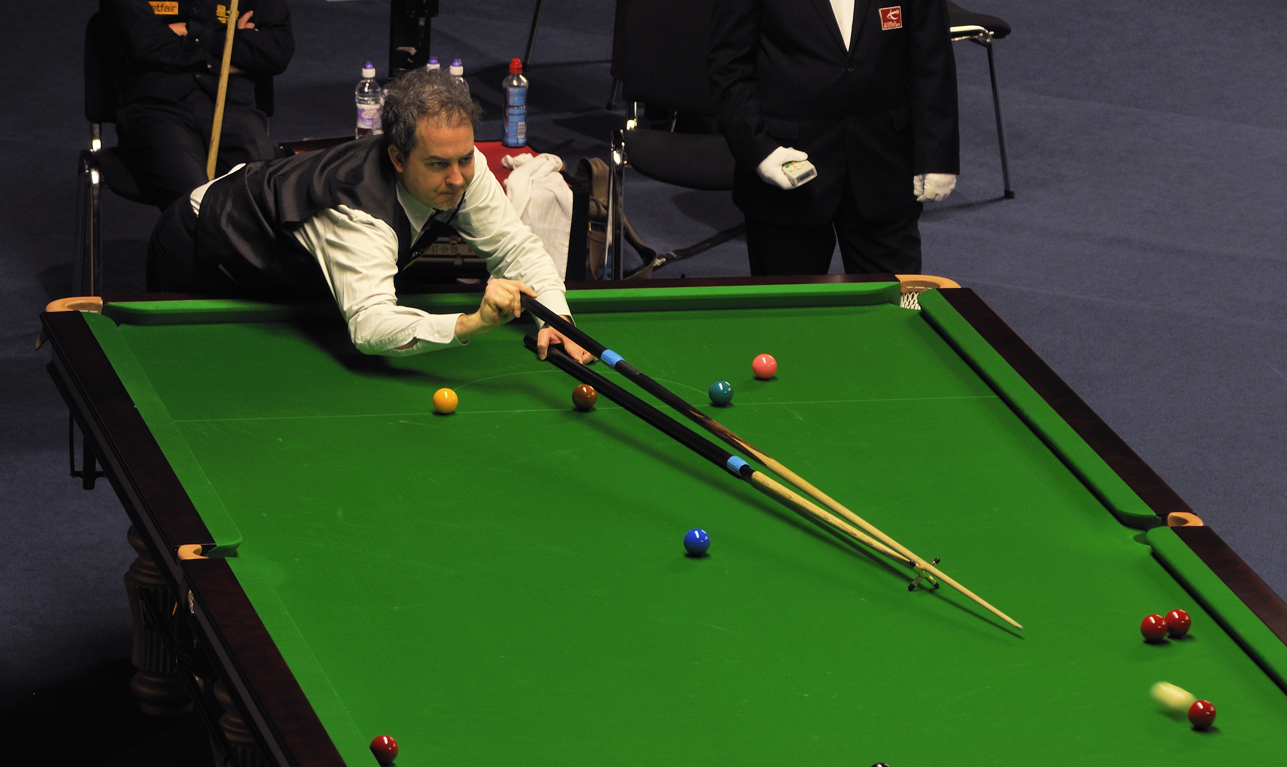 Picture taken in Berlin during the Snooker German Masters in 2013. Anthony Hamilton.